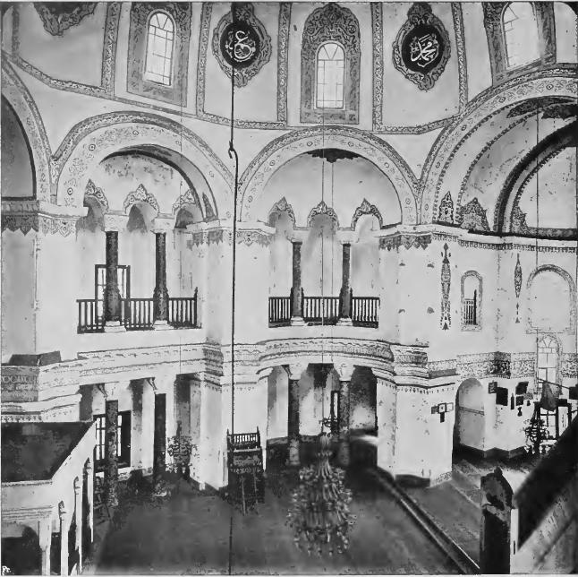 Altchristliche und byzantinische Kunst (c1914) Author: Wulff, Oskar, 1864- Subject: Christian art and symbolism; Art, Byzantine Publisher: Berlin-Neubabelsberg : Akademische Verlagsgesellschaft Athenaion Possible copyright status: NOT_IN_COPYRIGHT Language: German Call number: 263018 Digitizing sponsor: MSN Book contributor: Robarts - University of Toronto Collection: toronto Notes: Picture+pages+are+not+numbered. Scanfactors: 2